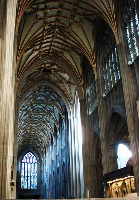 St Mary Redcliffe, Bristol South aisle, looking towards the south ambulatory.